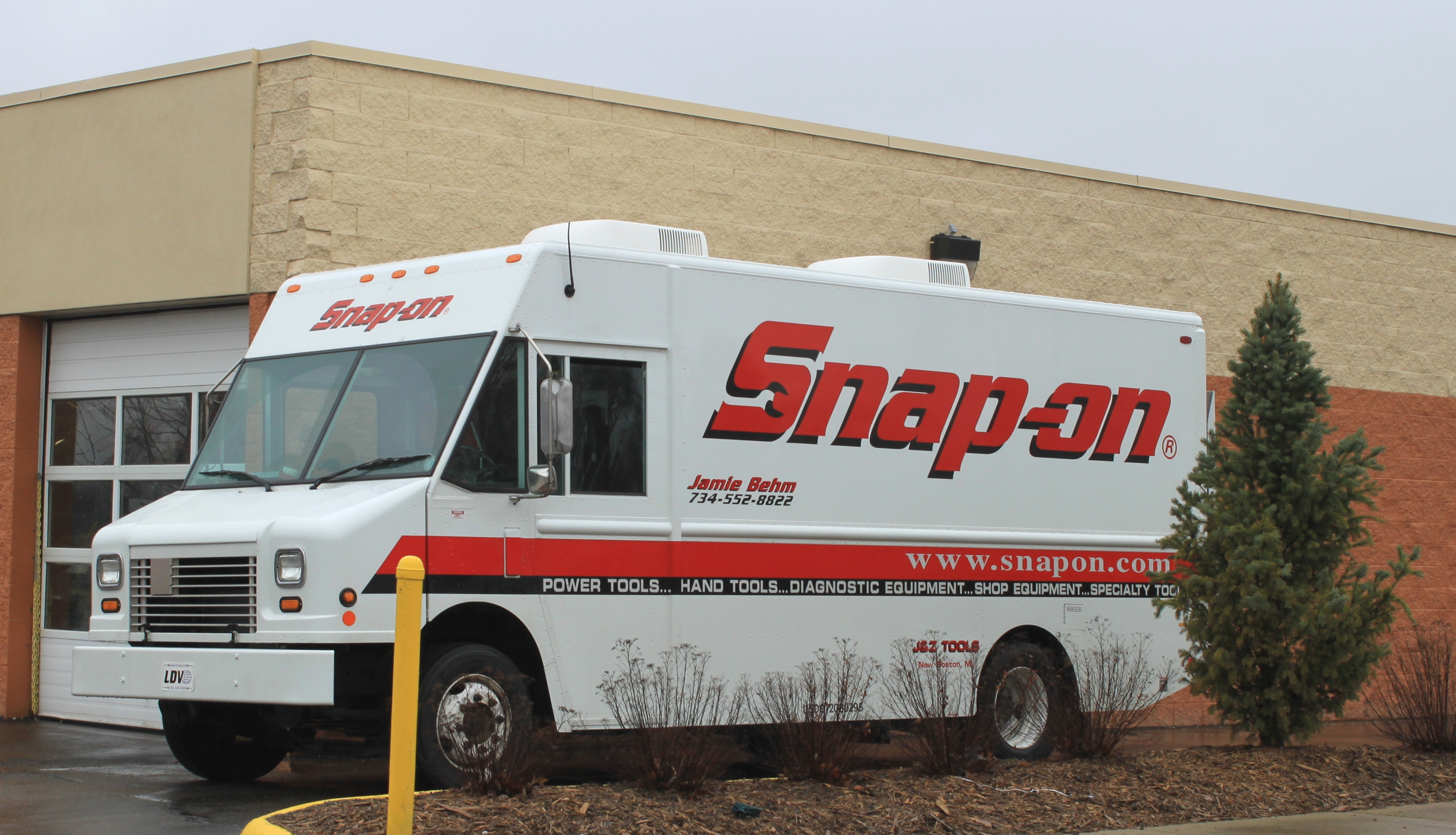 Snap-on walk-in dealer van at Firestone store, 6885 North Wayne Road, Westland, Michigan